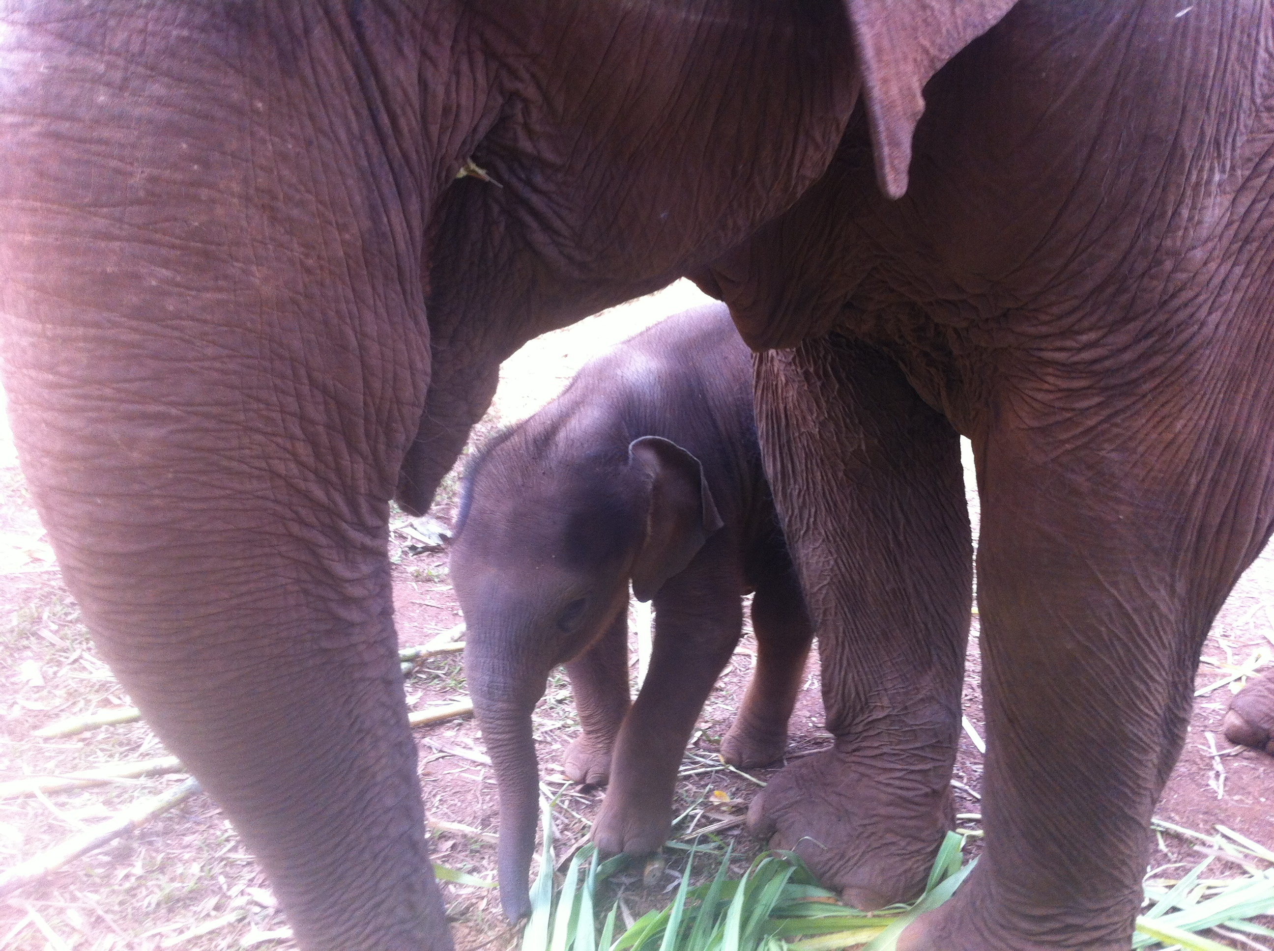 An elephant and her new baby at Patara Elephant Farm near Chiang Mai, Thailand.